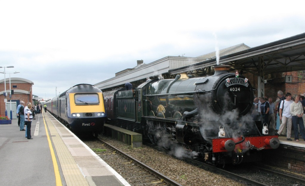 Sunday morning at Taunton station, Somerset, England. First Great Western 43140 with a train from London Paddington to penzance passes King Edward I which is taking on water during its excursion from Bristol to Kingswear on the Torbay Express.